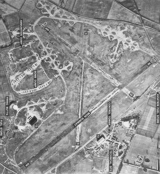 Aerial photograph of North Pickenham Airfield, England